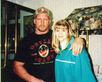 the legend stone cold steve austin with a fan